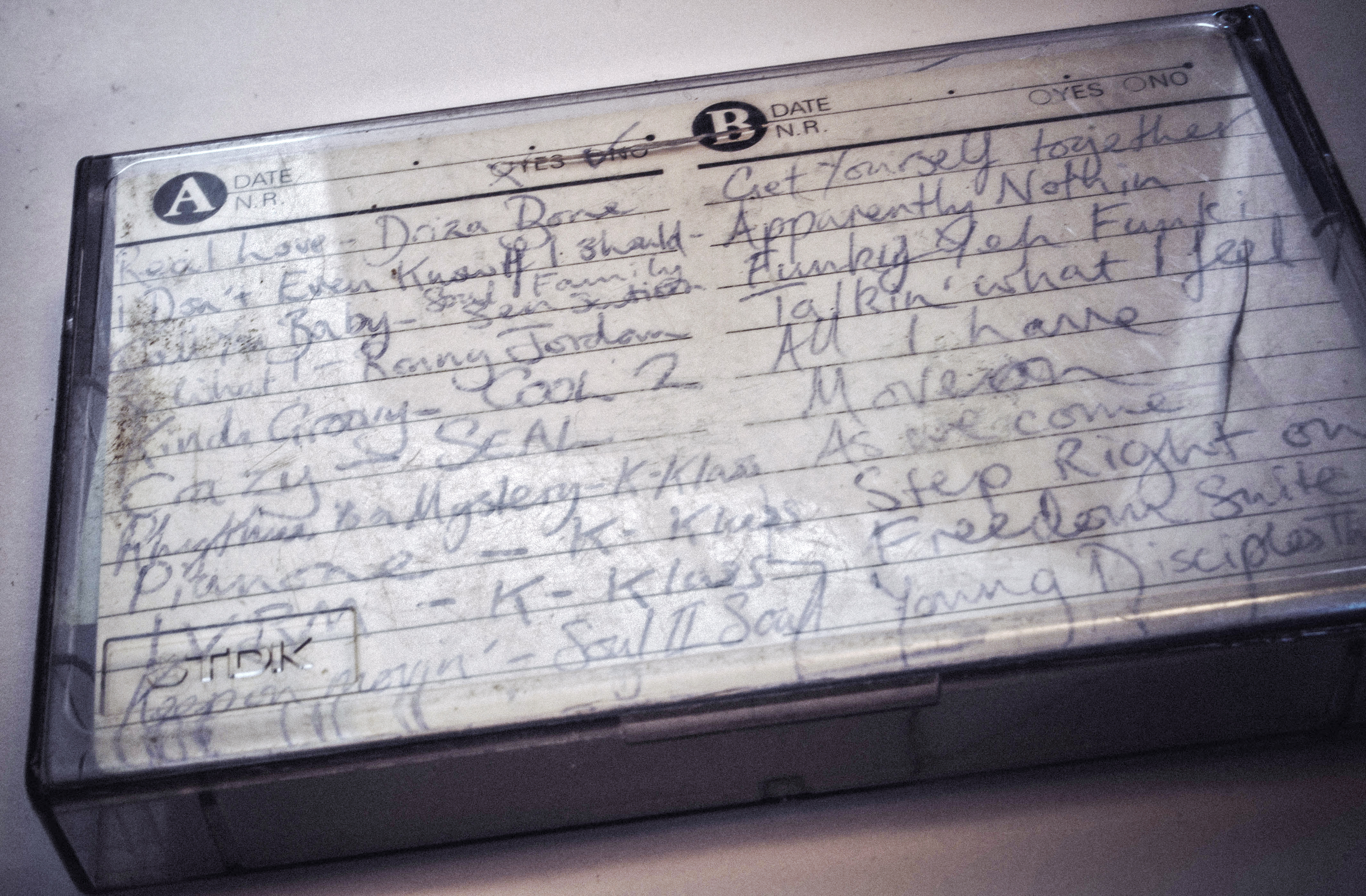 This is a tape probably from 1991 / 1992, when I was going to raves and listening to a lot of Acid Jazz. Side B is the mighty Young Disciples while Side A is a compilation of various jazz, funk, pop stuff - K-Klass features large.